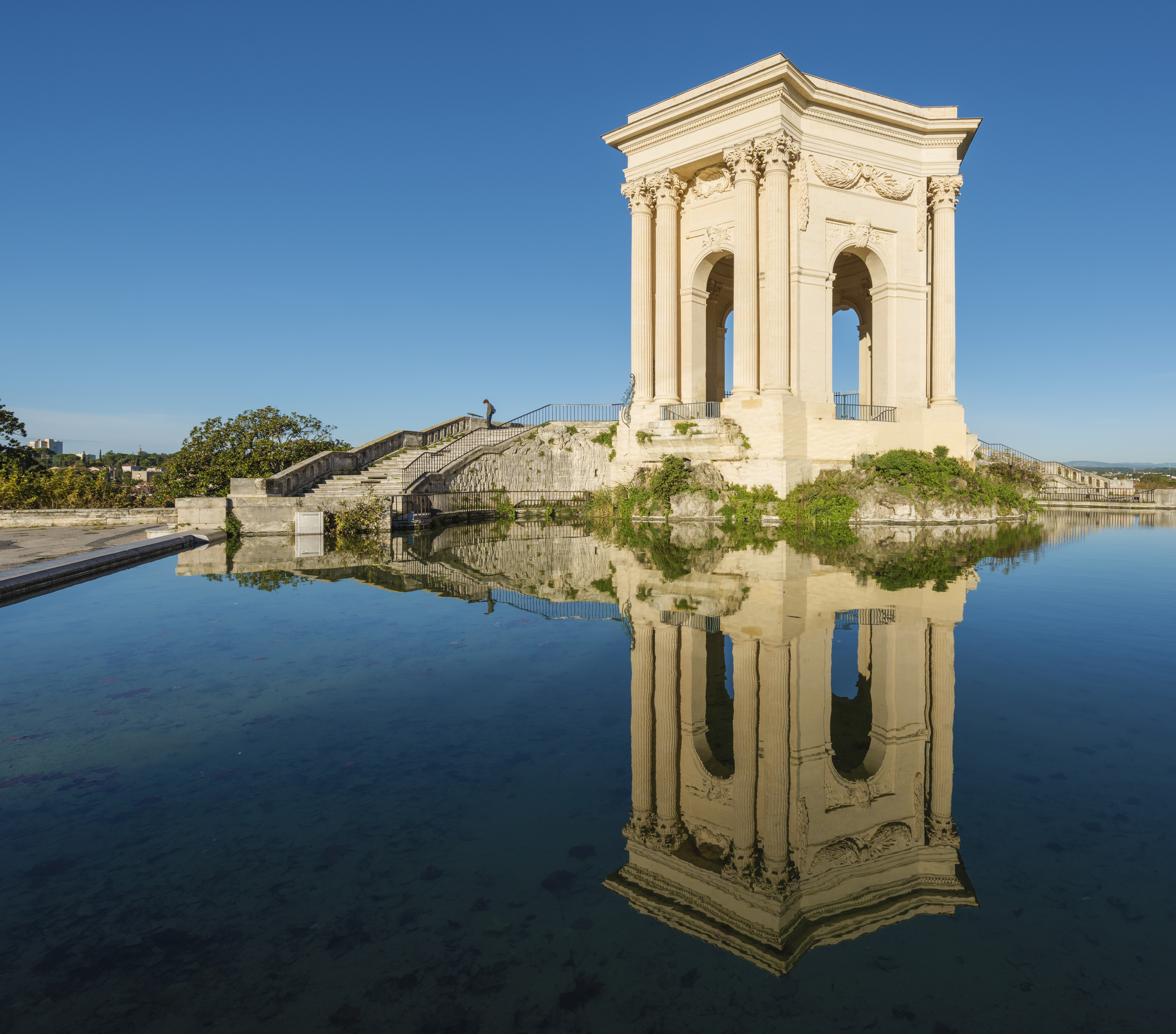 Château d'eau du Peyrou (Peyrou Water Tower, 1689).Montpellier, Hérault, France.